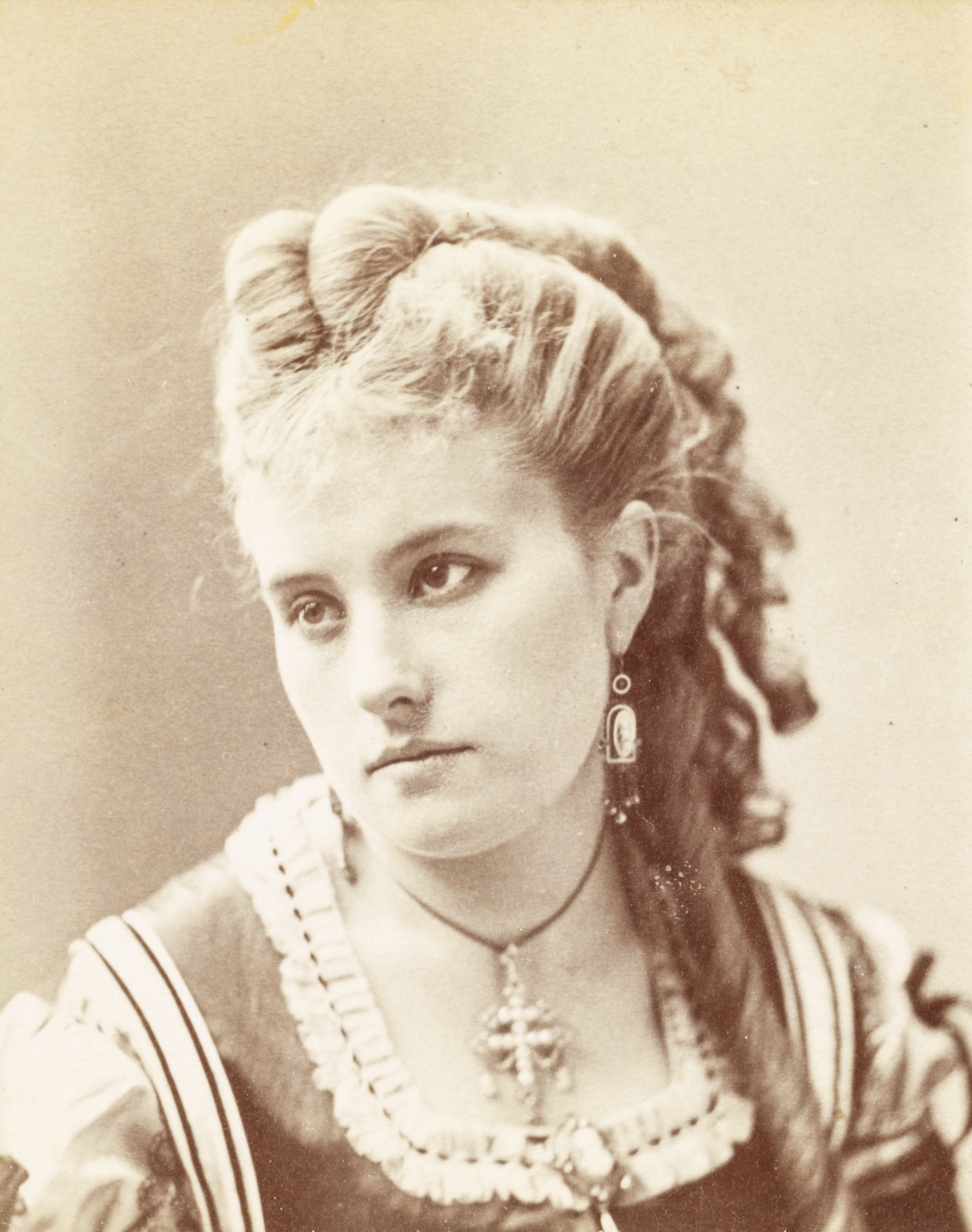 Pauline Markham Actress, "Ixion" original British Blonde Summary Subject Headings Portrait Photographs--1860-1890 Actresses--1860-1890